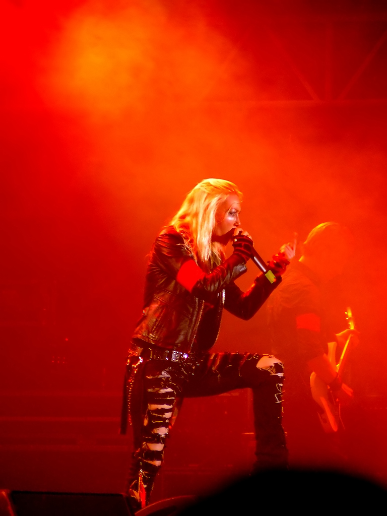 Angela Gossow on Masters of Rock 2009 in Vizovice